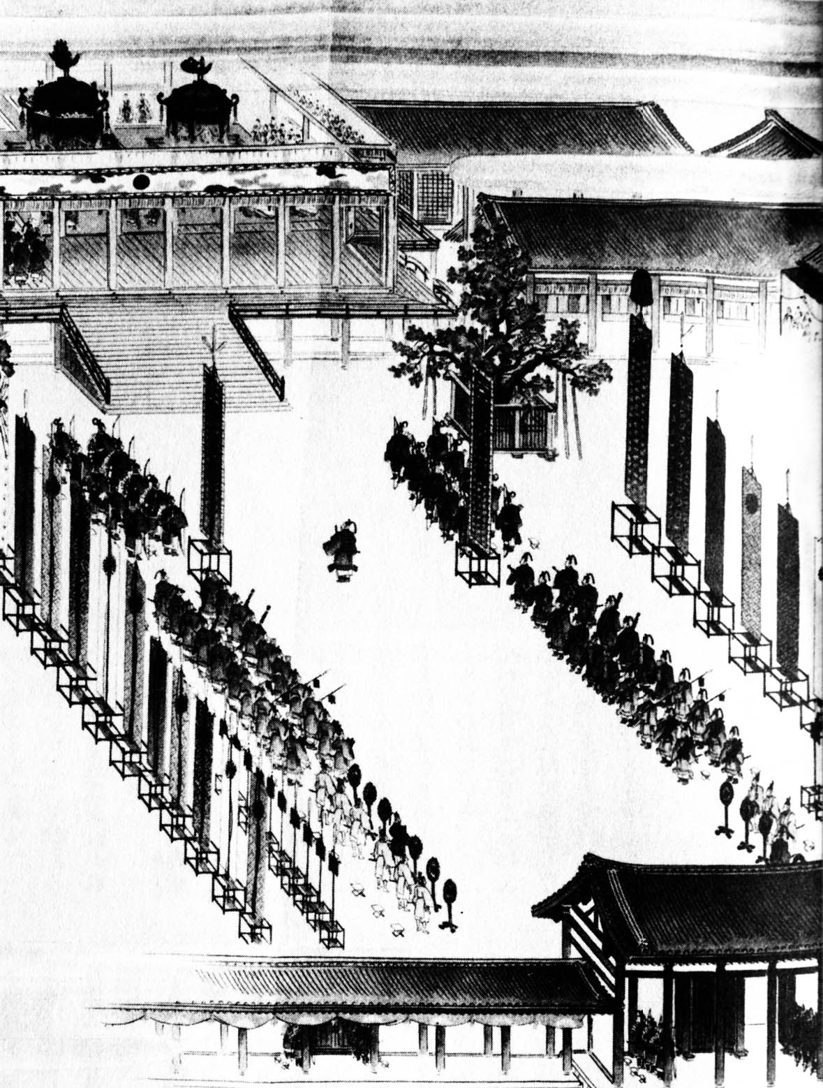 Enthronement ceremony of Emperor Hirohito, in Kyoto imperial palace.